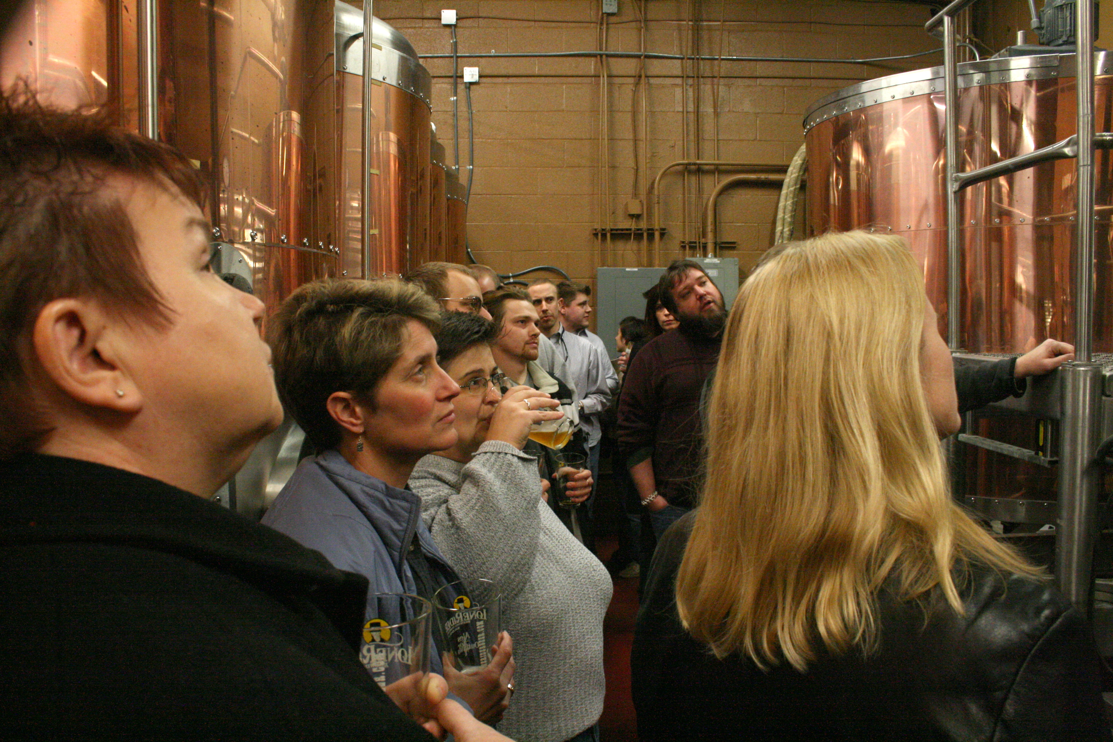 Visitors following Steve Kramling on a tour of the LoneRider Brewery in Raleigh, North Carolina.